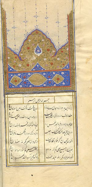 Divan' of the Persian poet Anvari. Shekaste Nasta'liq style.